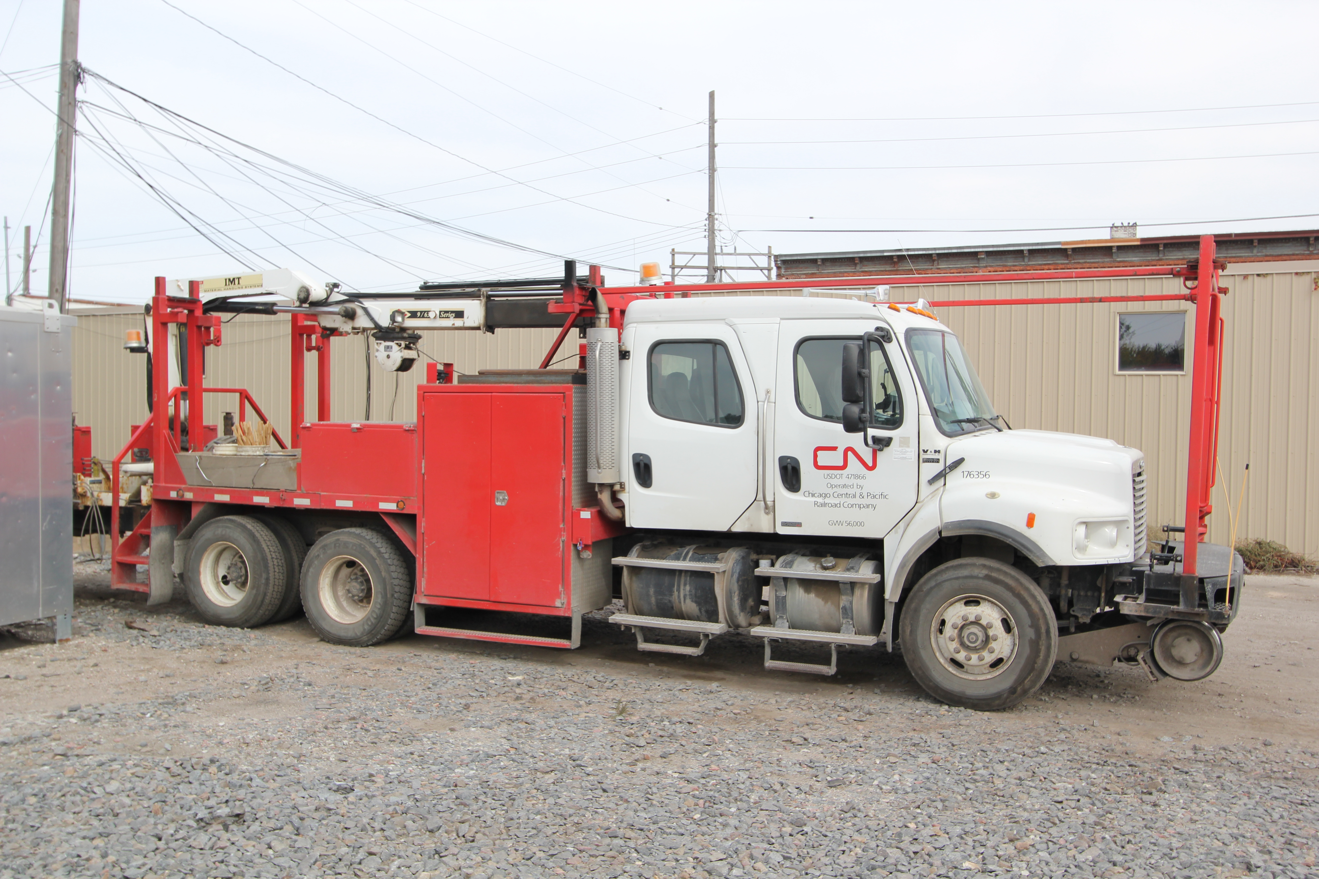 This is a photograph of a Canadian National Railway maintenance vehicle, #176356. This picture was taken in Storm Lake, Iowa.